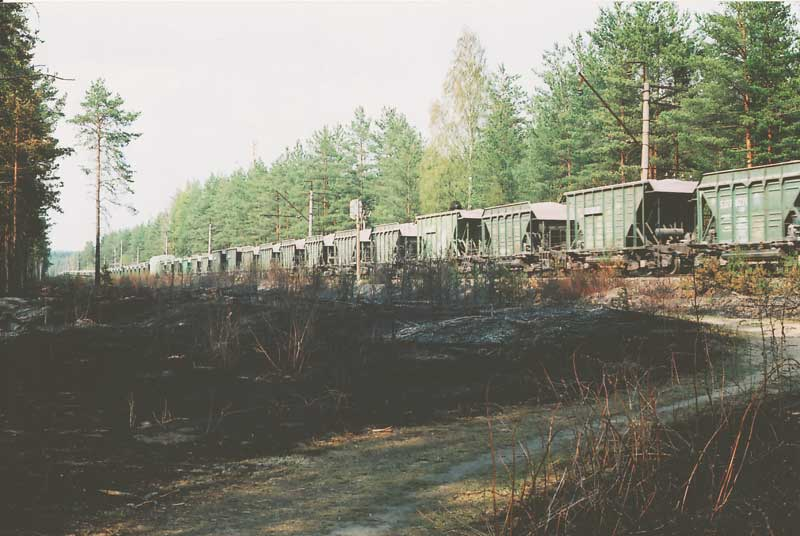 Saint Petersburg–Kuznechnoye railway, May 2006